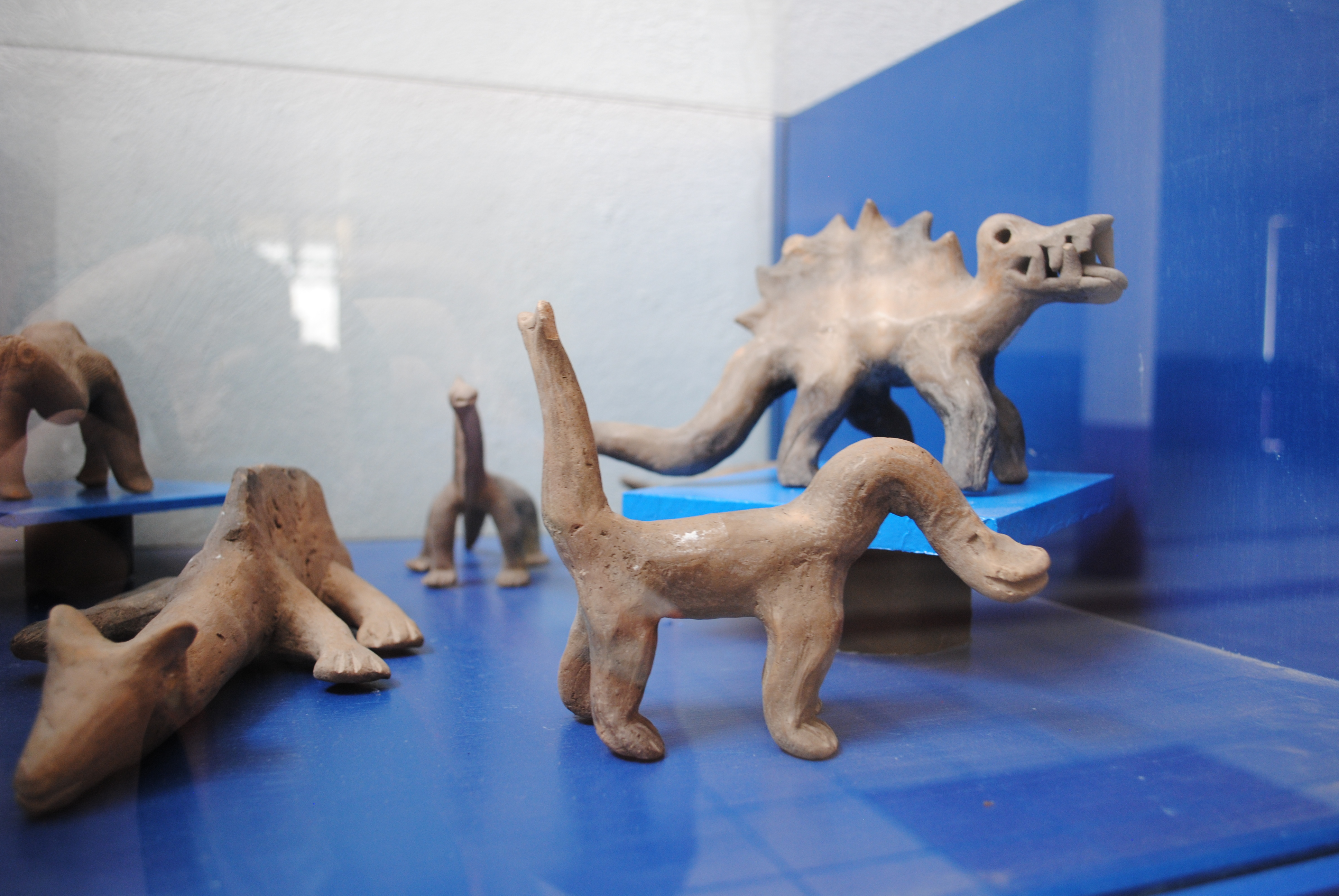 Muzeo Julsrud